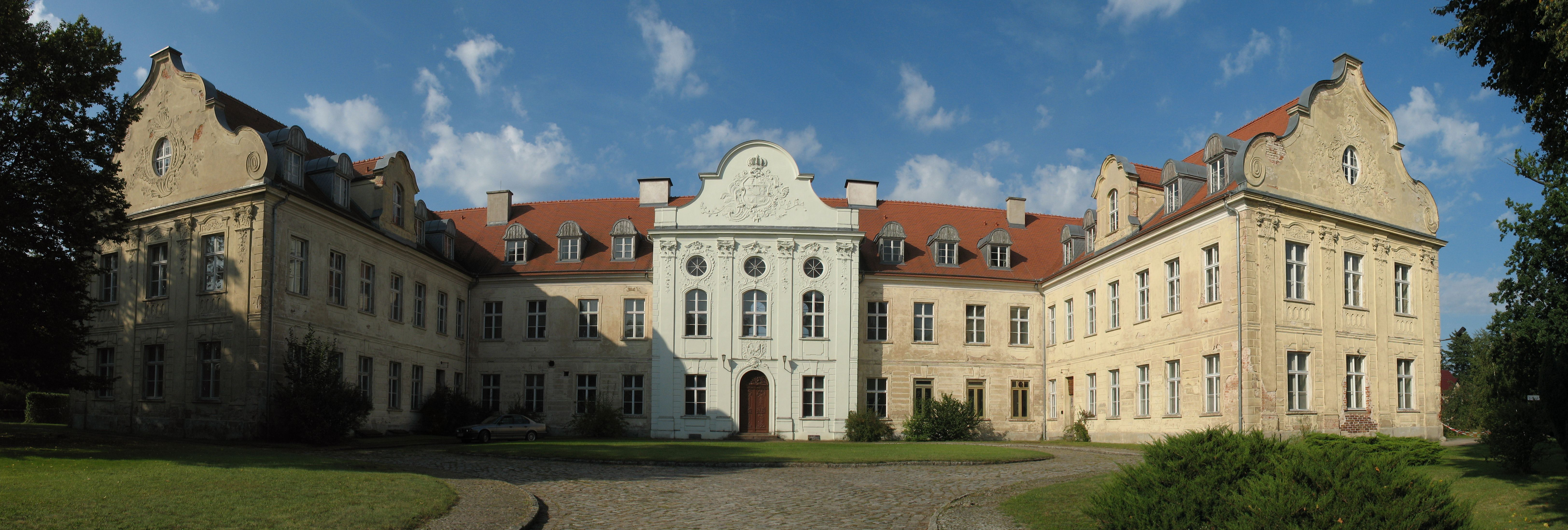 Palace in Fürstenberg in Brandenburg, Germany